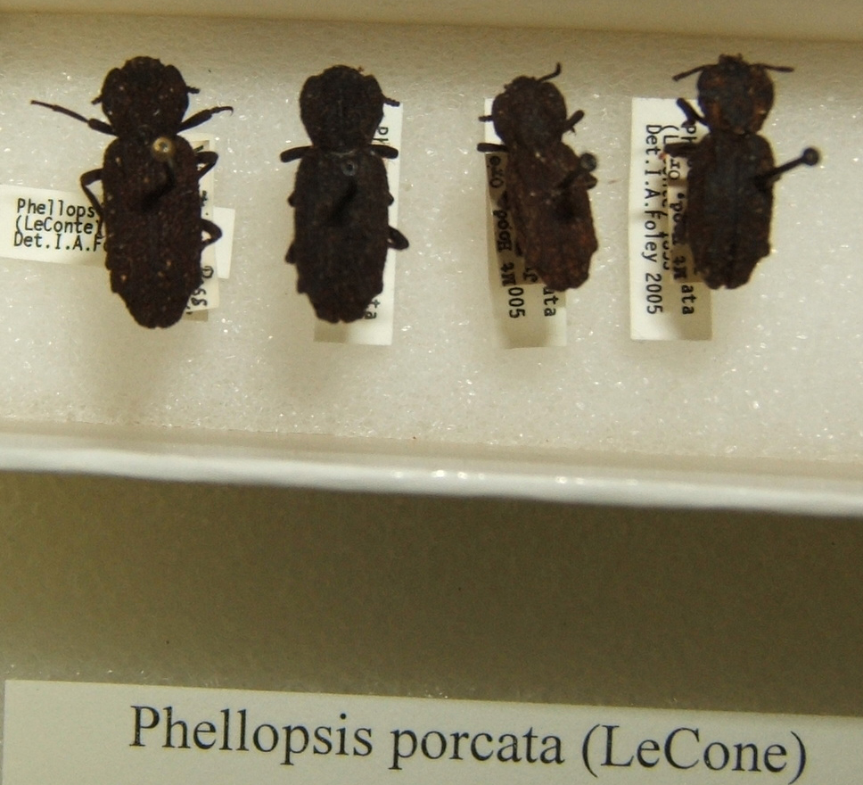 Phellopsis porcata adult variation taken by Shawn Hanrahan at the Texas A&M University Insect Collection in College Station, Texas.